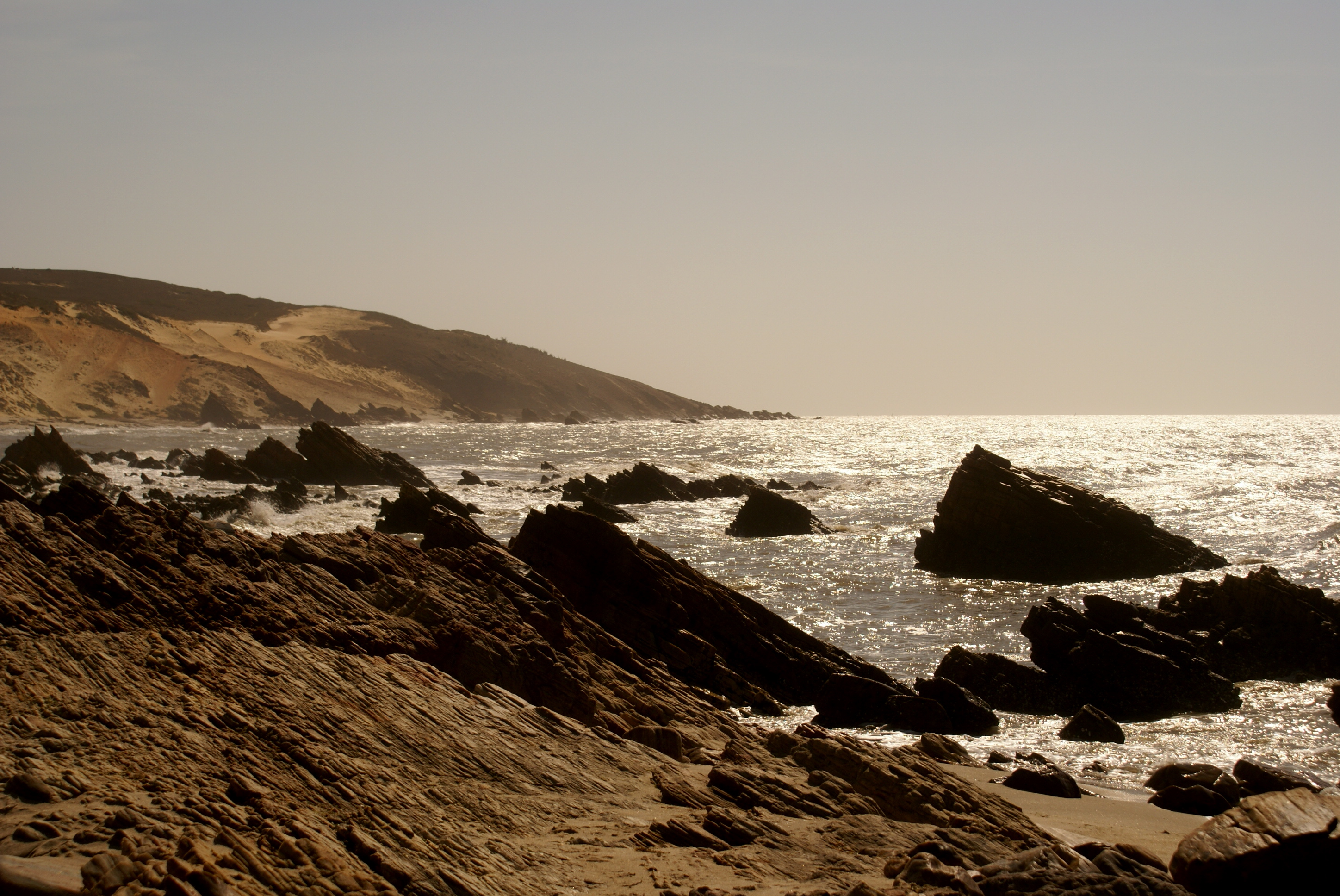 Jericoacoara (4)